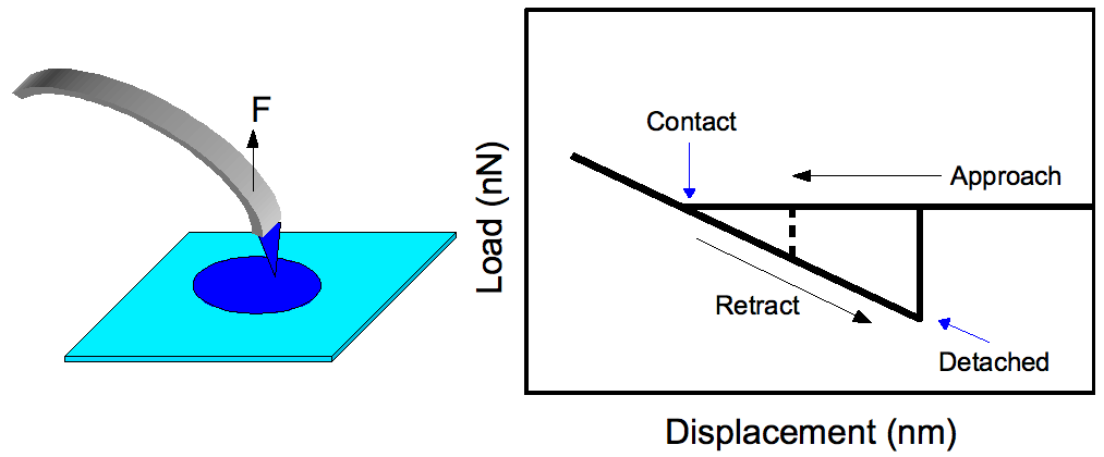 CFM Figure 2